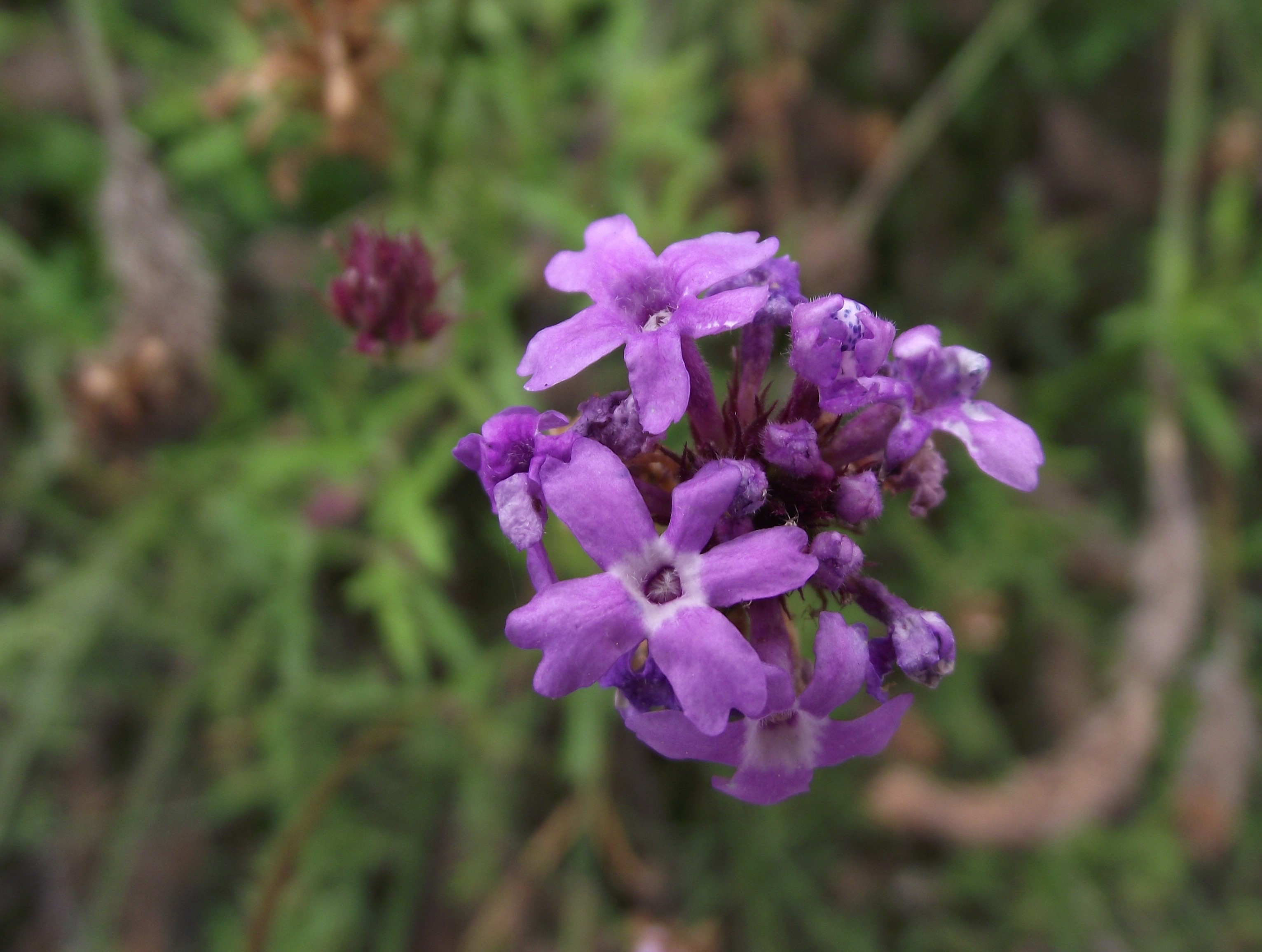 Verbena lilacina 'De la Mina' at Santa Barbara Botanic Garden, Santa Barbara, California, USA. Identified by sign.